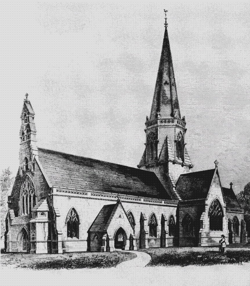 St Mary's Church, The Boltons, London, seen from the south as originally proposed